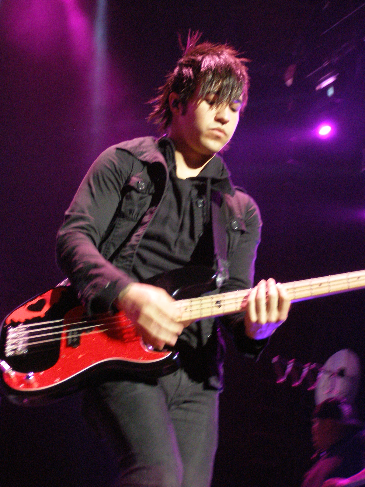 Pete Wentz and Fall Out Boy performing in May 2007.